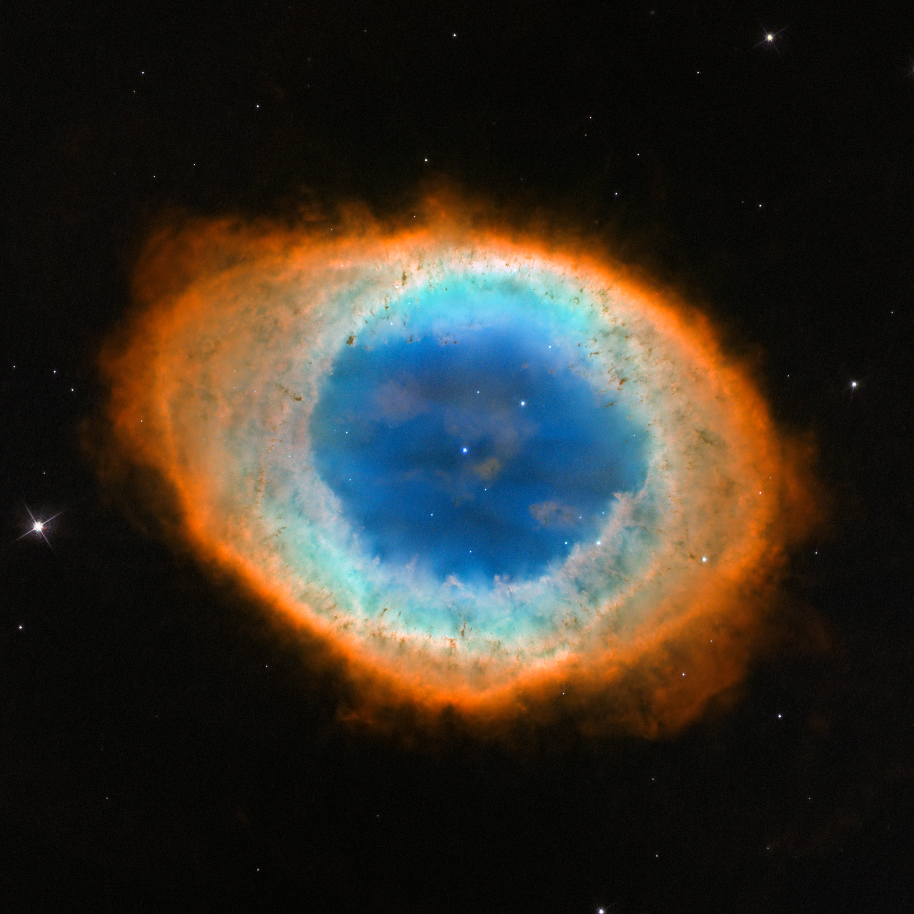 This new image shows the dramatic shape and colour of the Ring Nebula, otherwise known as Messier 57. From Earth’s perspective, the nebula looks like a simple elliptical shape with a shaggy boundary. However, new observations combining existing ground-based data with new NASA/ESA Hubble Space Telescope data show that the nebula is shaped like a distorted doughnut. This doughnut has a rugby-ball-shaped region of lower-density material slotted into in its central “gap”, stretching towards and away from us.